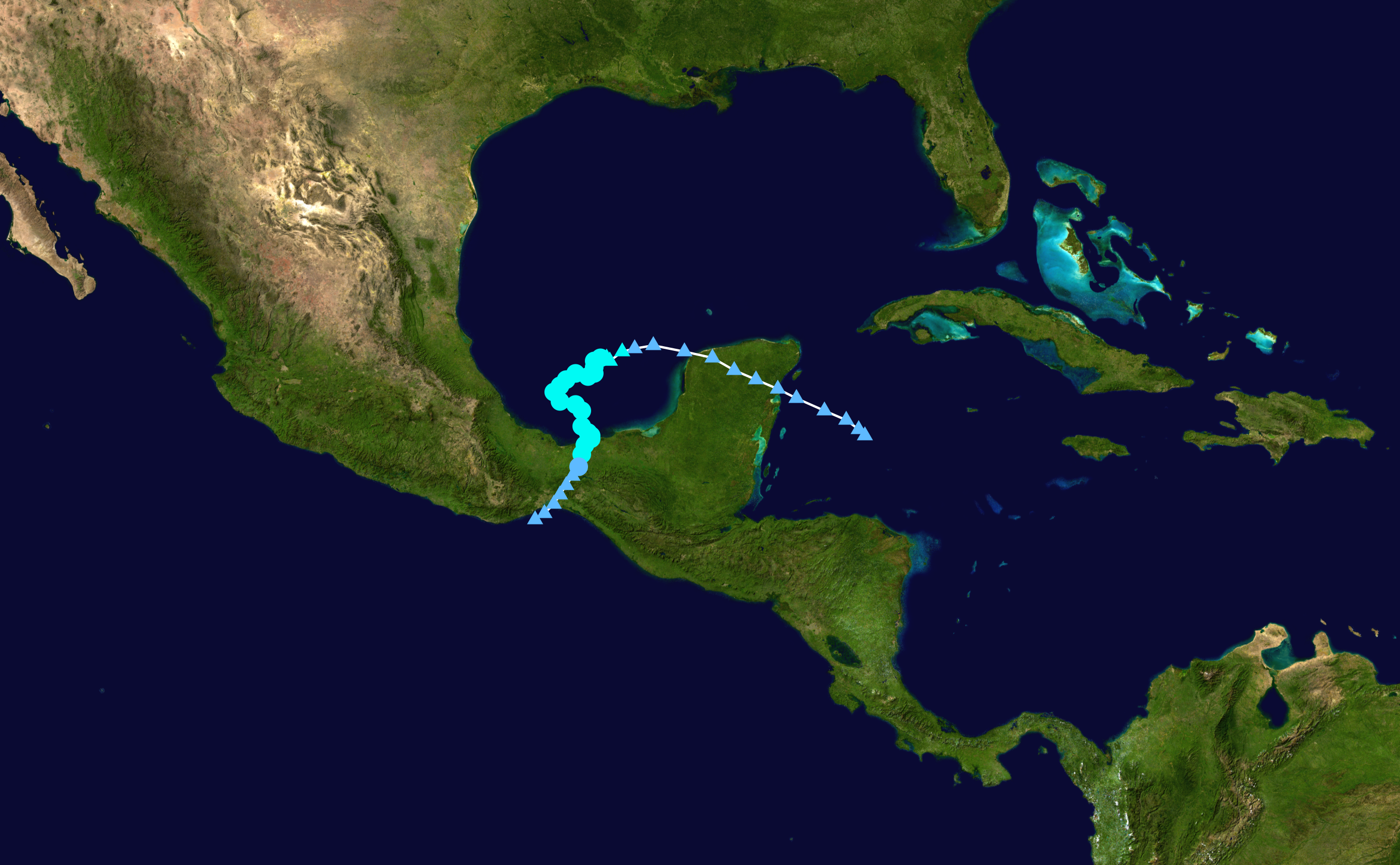 Track map of Tropical Storm Larry of the 2003 Atlantic hurricane season. The points show the location of the storm at 6-hour intervals. The colour represents the storm's maximum sustained wind speeds as classified in the Saffir–Simpson scale (see below), and the shape of the data points represent the nature of the storm, according to the legend below. Saffir–Simpson scale Tropical depression≤38 mph≤62 km/h Category 3111–129 mph178–208 km/h Tropical storm39–73 mph63–118 km/h Category 4130–156 mph209–251 km/h Category 174–95 mph119–153 km/h Category 5≥157 mph≥252 km/h Category 296–110 mph154–177 km/h Unknown Storm type Tropical cyclone Subtropical cyclone Extratropical cyclone / Remnant low / Tropical disturbance / Monsoon depression